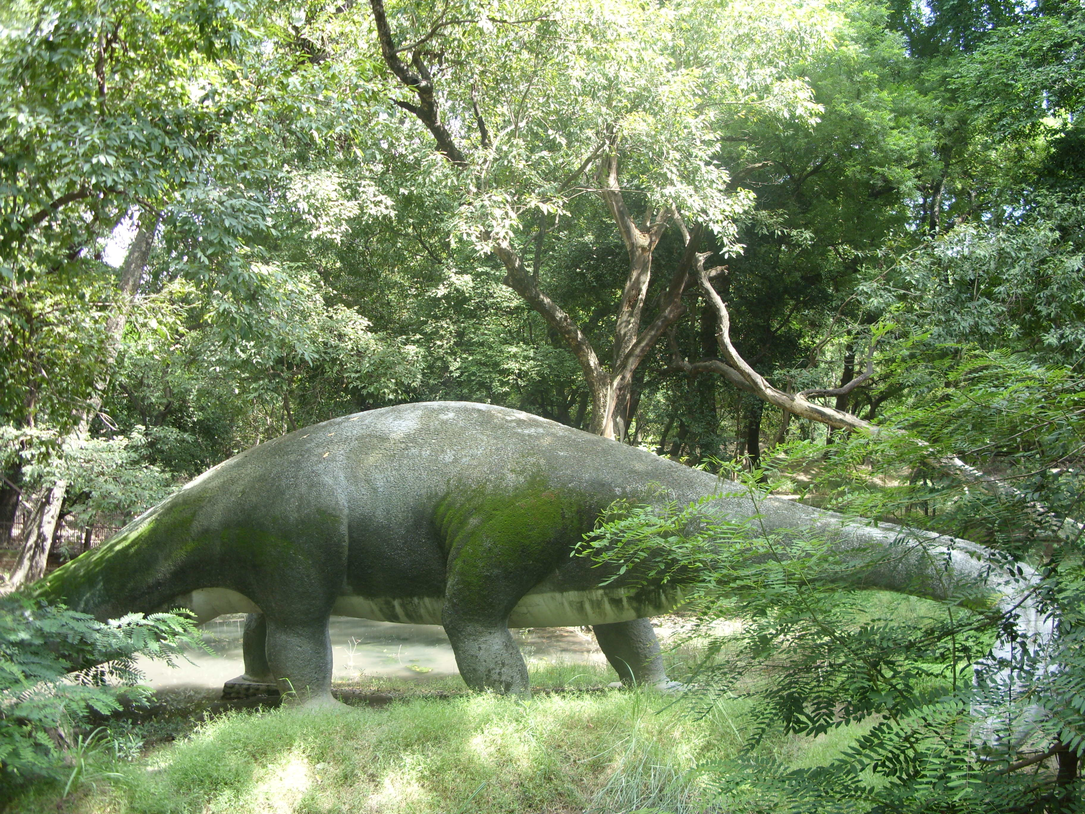 life size sculpted dinosaur at kanpur zoo